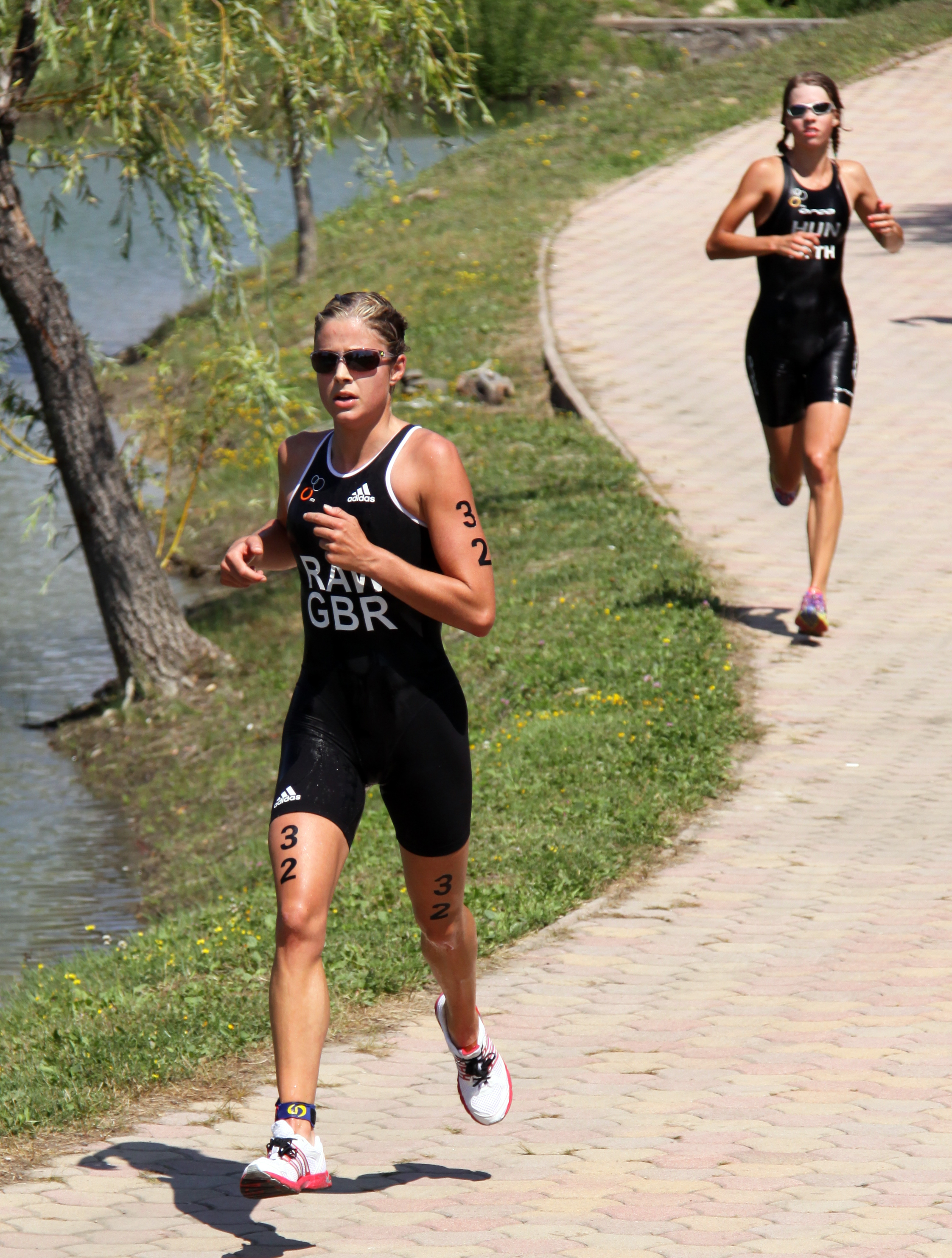 Vanessa Raw at the European Cup in Tiszaújváros, 2009, being chased by Zsófia Tóth.